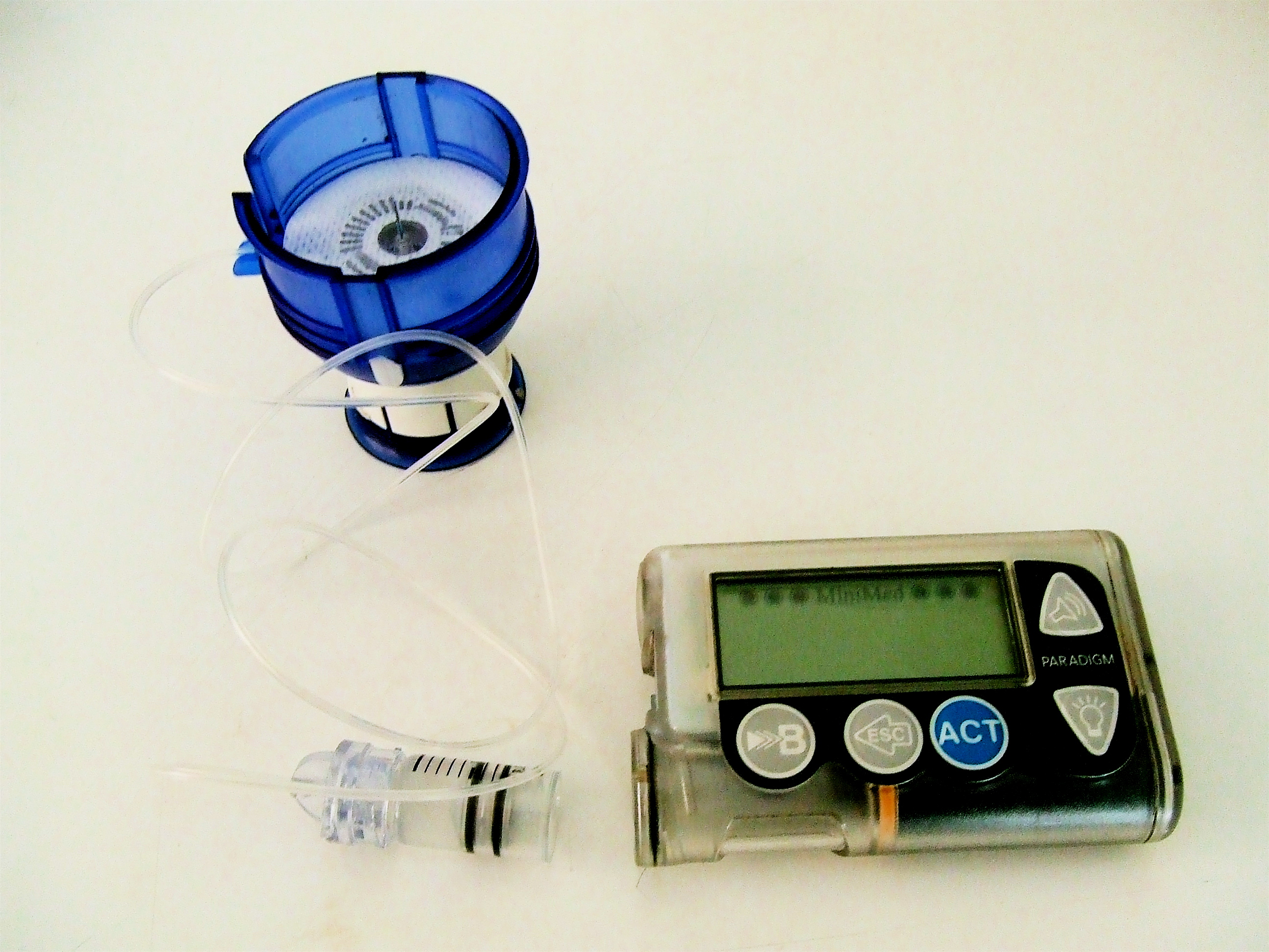 A picture I took of my Minimed Medtronic Paradigm 512 insulin pump, showing an infusion set attached to a reservoir. The blue object is a spring-loaded insertion device to insert the metal needle (which is surrounded by a plastic cannula) beneath the skin. The metal needle is then removed, leaving the cannula in place.